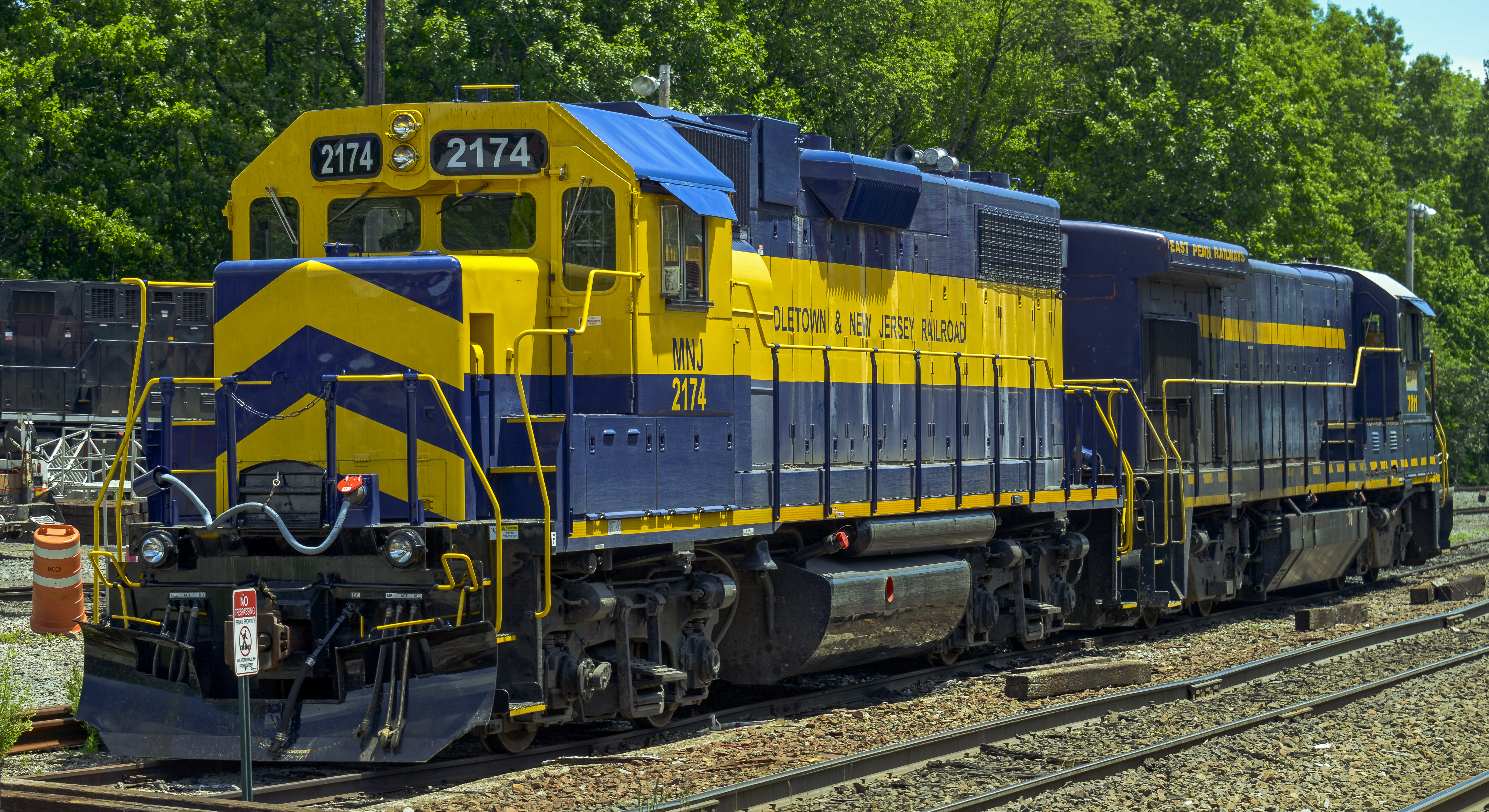 Middletown & New Jersey locomotive #2174, parked at Campbell Hall station, with a leased East Penn loco on the other end of the lashup.